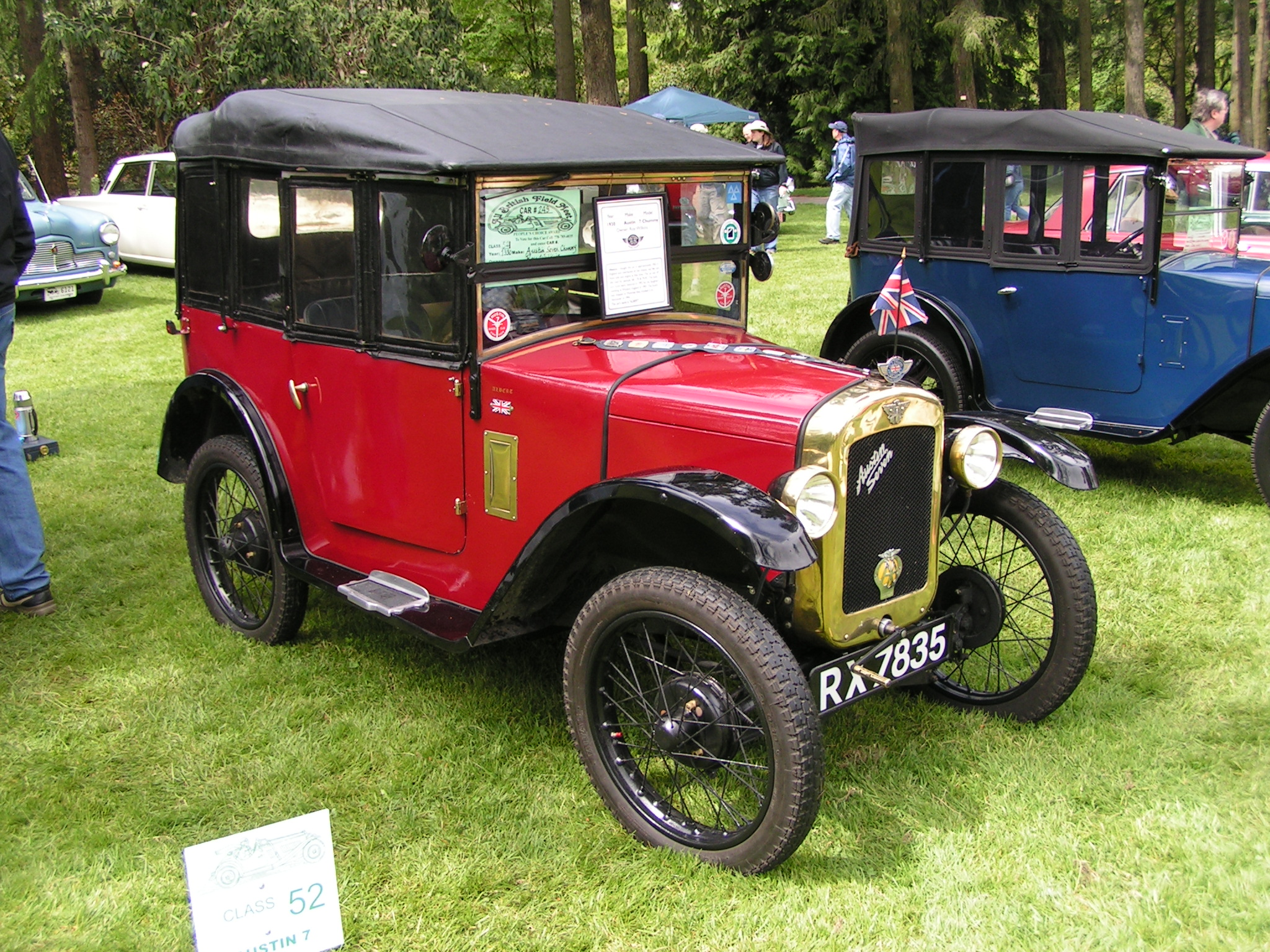 Austin Seven